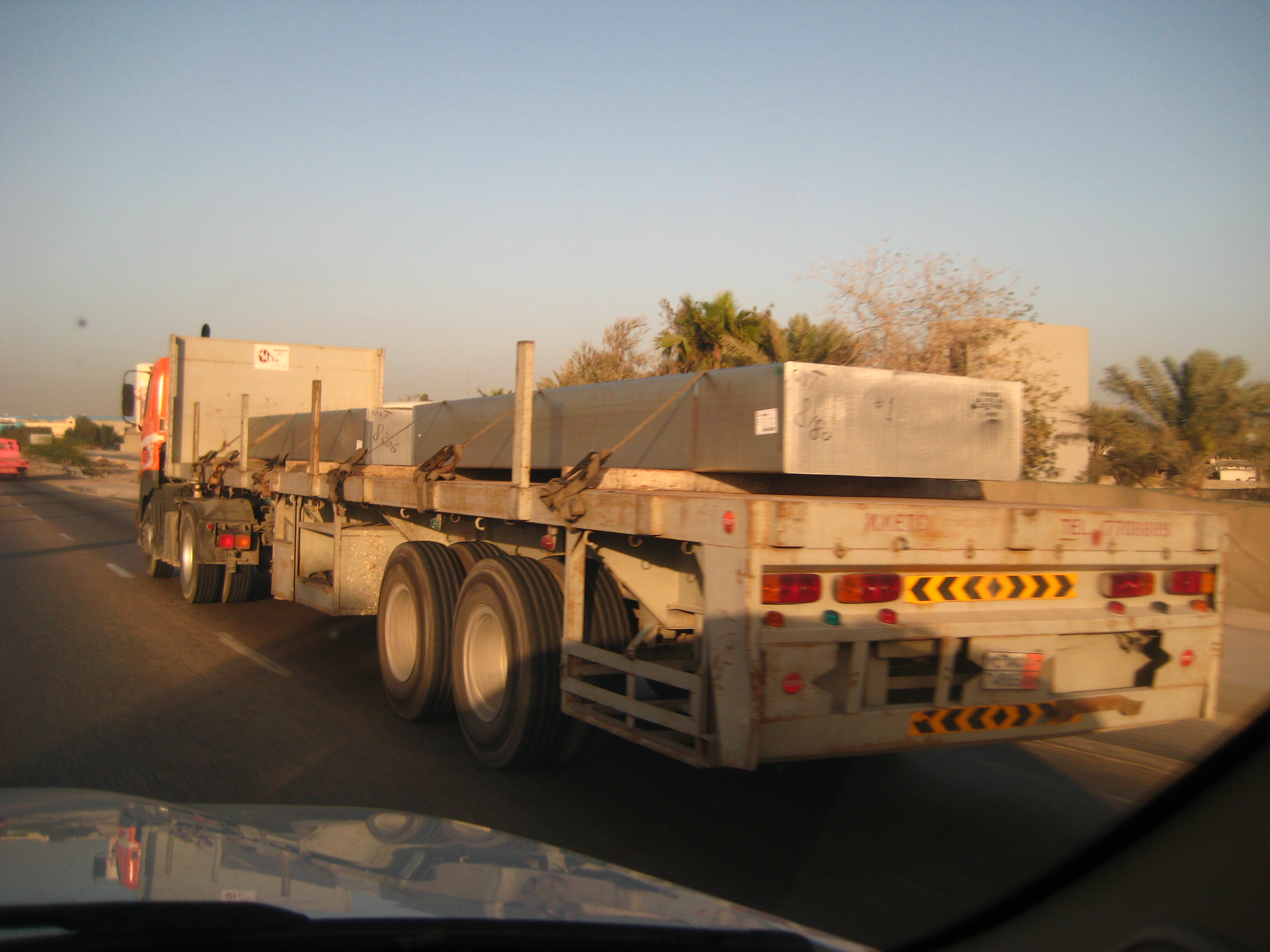 Aluminium Slab direct from an aluminum smelters being transported for further processing